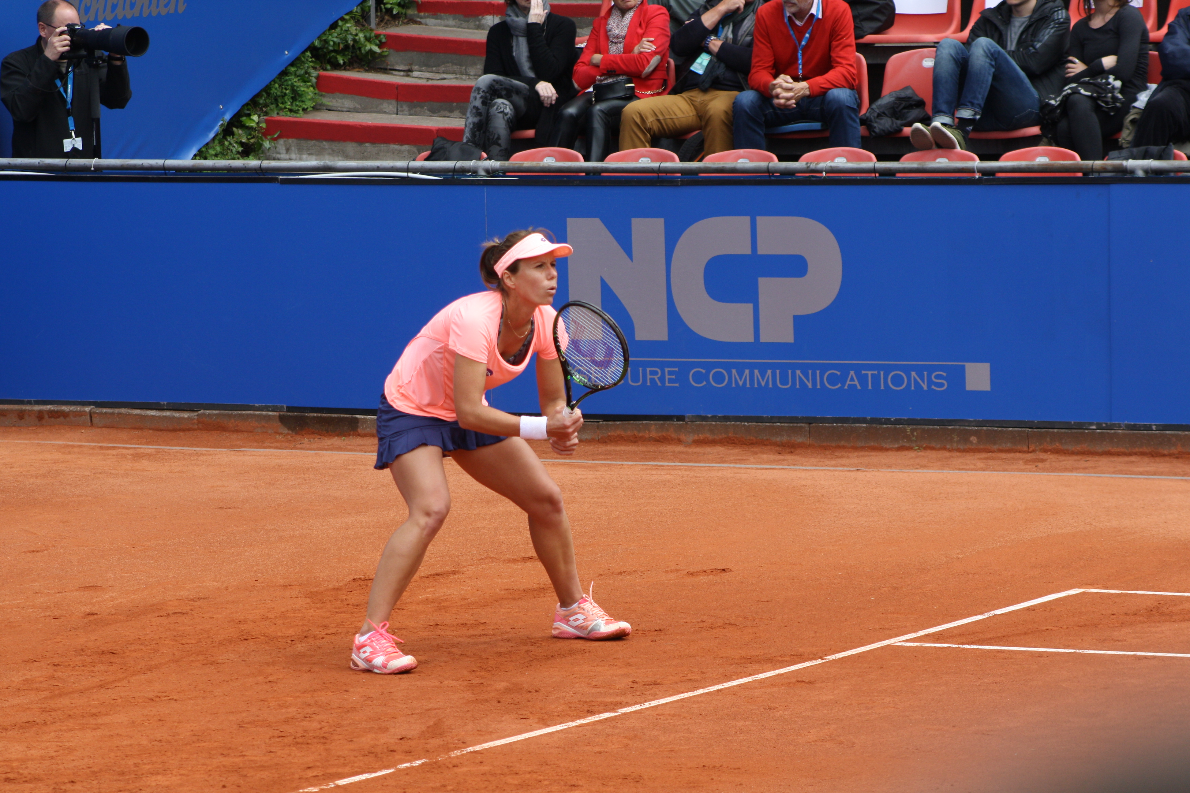 Varvara Lepchenko, May 2016